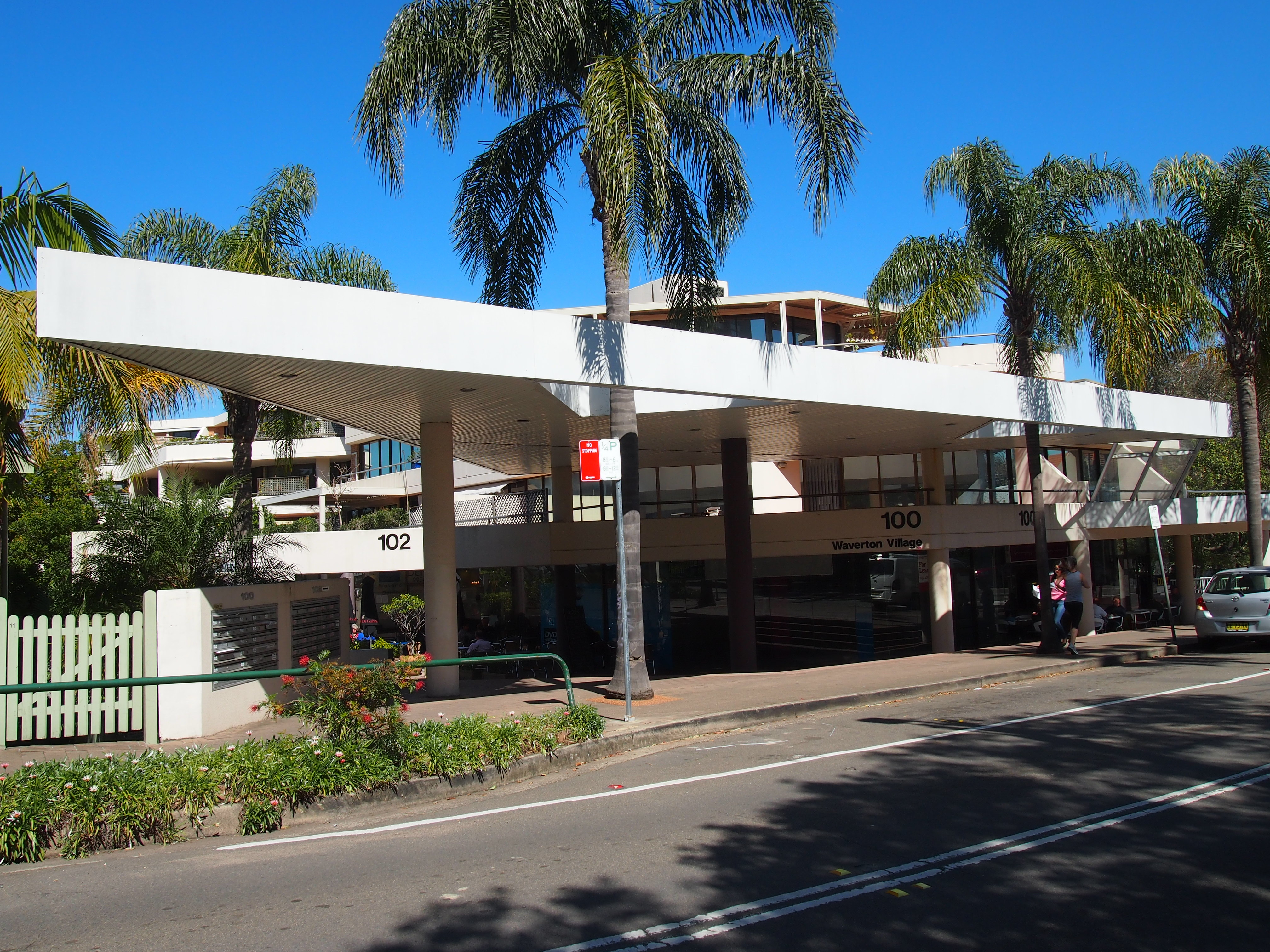 Waverton Village shopping centre in September 2012